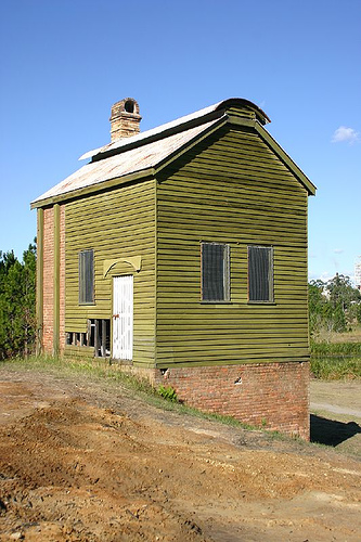 Retort house from the old Scottish gold mine in Gympie. Heritage listed this is the only mining building still standing in Gympie. Photo taken 16th June 2006.